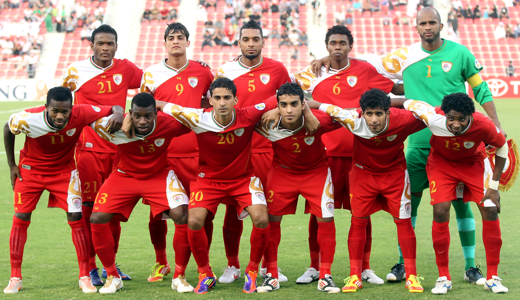 The Omani national football team pose ahead of their 2014 FIFA World Cup qualifying match against Iraq in Doha. Picture by Mohan